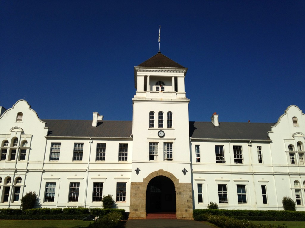 A view of the William Campbell Building, Hilton College.